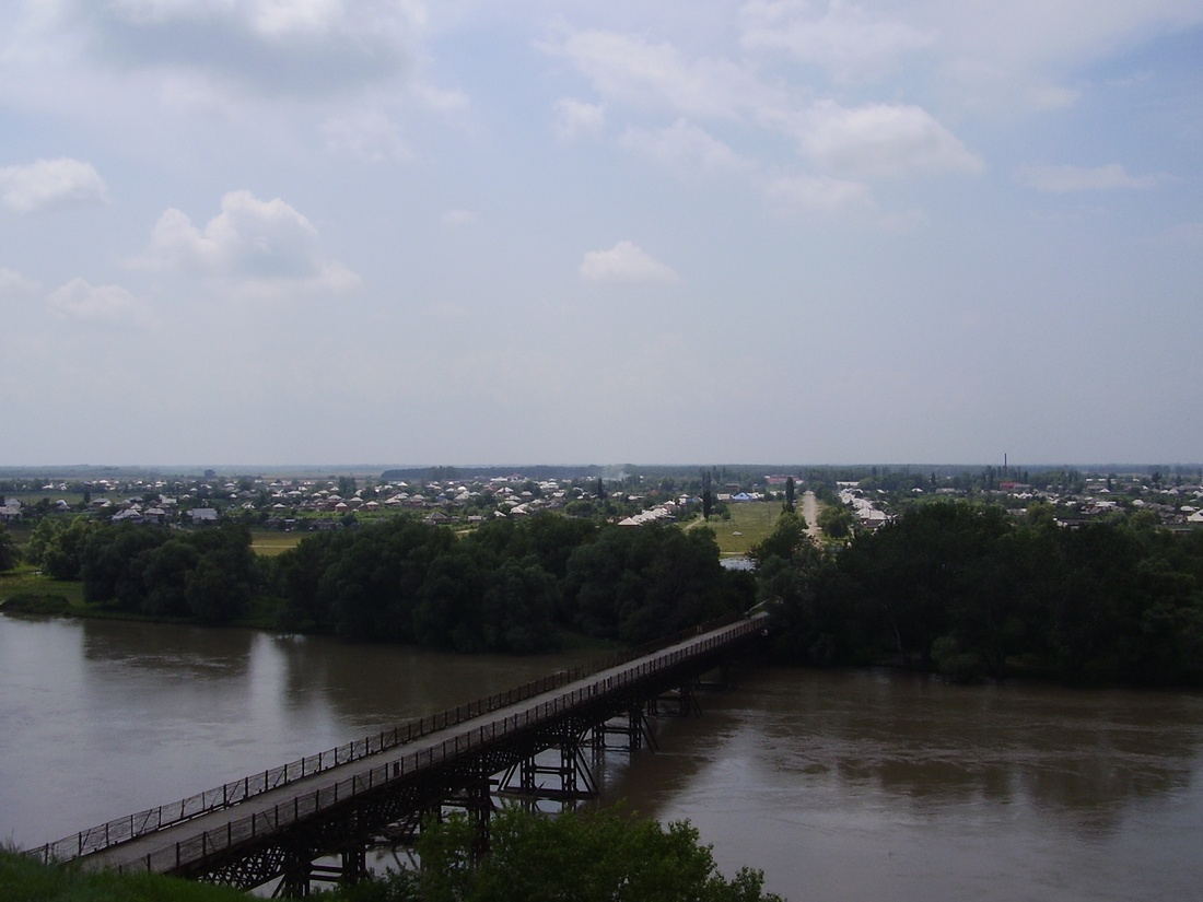 Aul Khatukay, Adygea. Most through the river Kuban on the part of the city of Ust'-Labinsk.